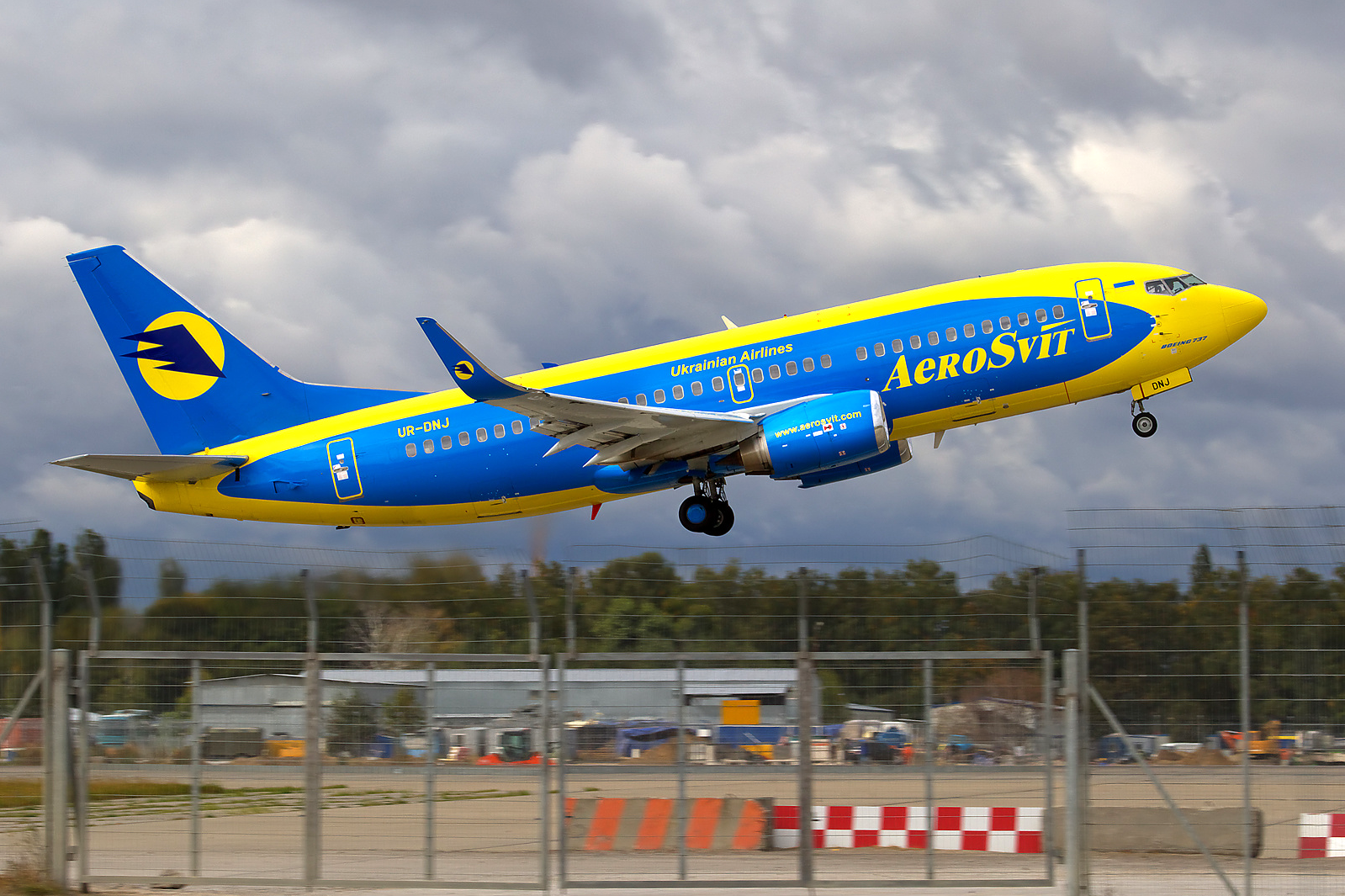 An AeroSvit Ukrainian Airlines Boeing 737-36Q departs Kiev Borispyl Airport (KBP / UKBB)